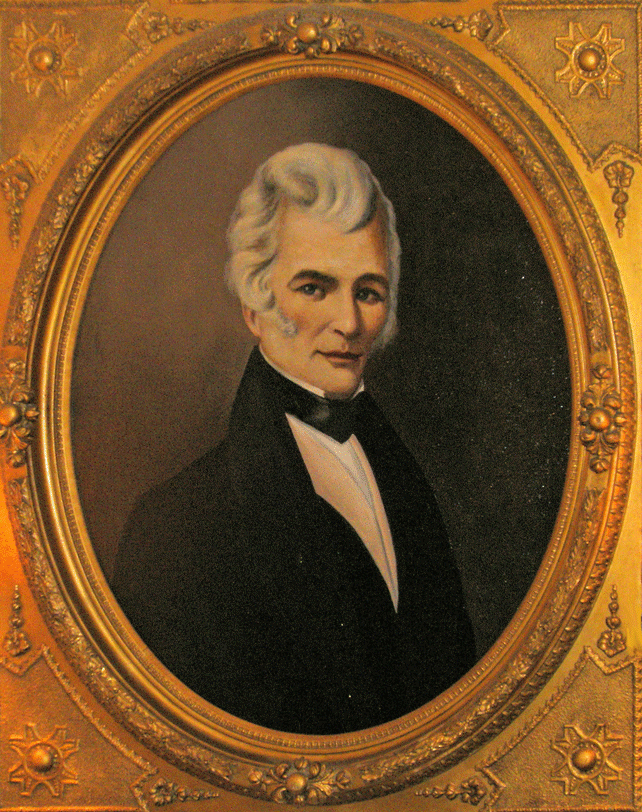 Portrait of William Carroll (1788–1844), former Governor of Tennessee.